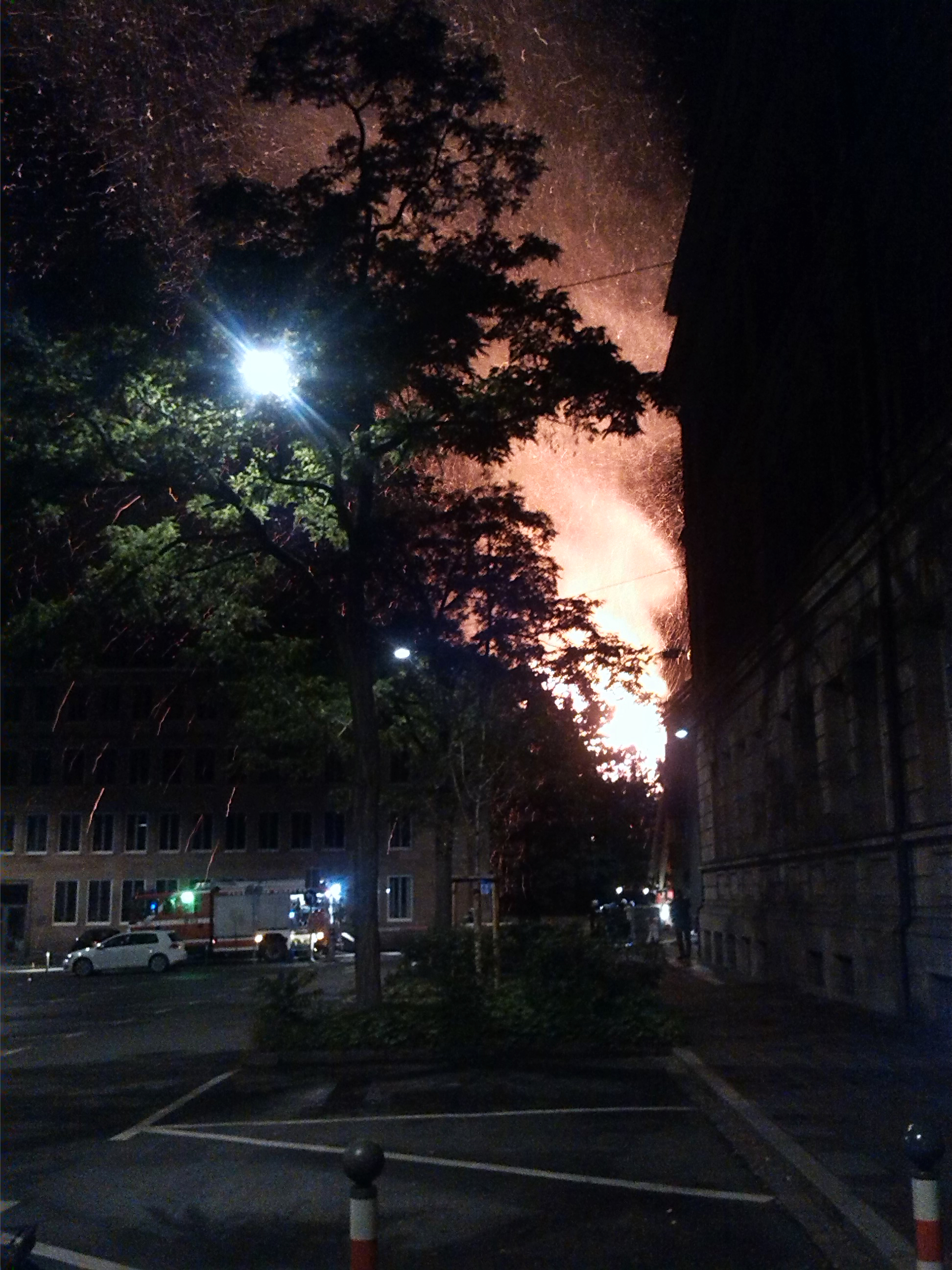 St. Martha church fire in Nuremberg (5th of June, 2014, 1:51). As seen from the parking lot of the Bauhof.